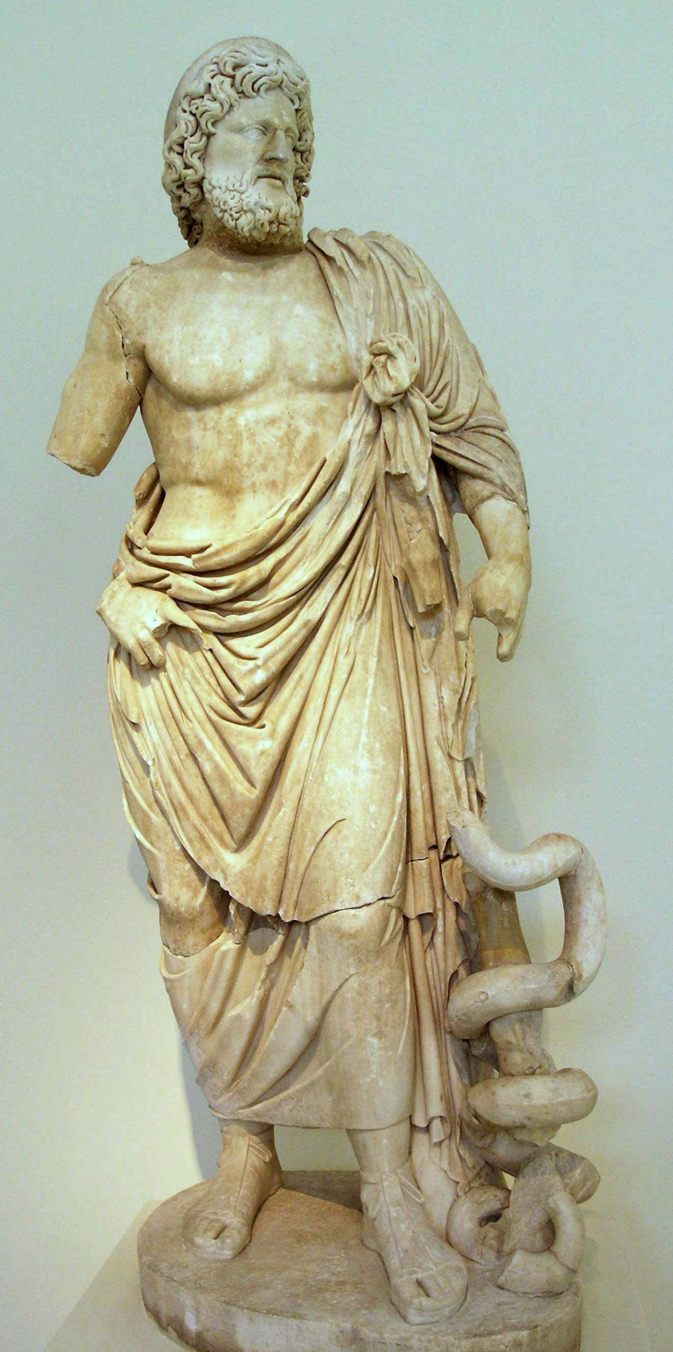 Statue of Asclepios of the Este type. Pentelic marble, Roman copy of ca. 160 AD after a 4th-century BC original. From the temple of Asclepios at Epidaurus. National Archaeological Museum in Athens, n. 263.